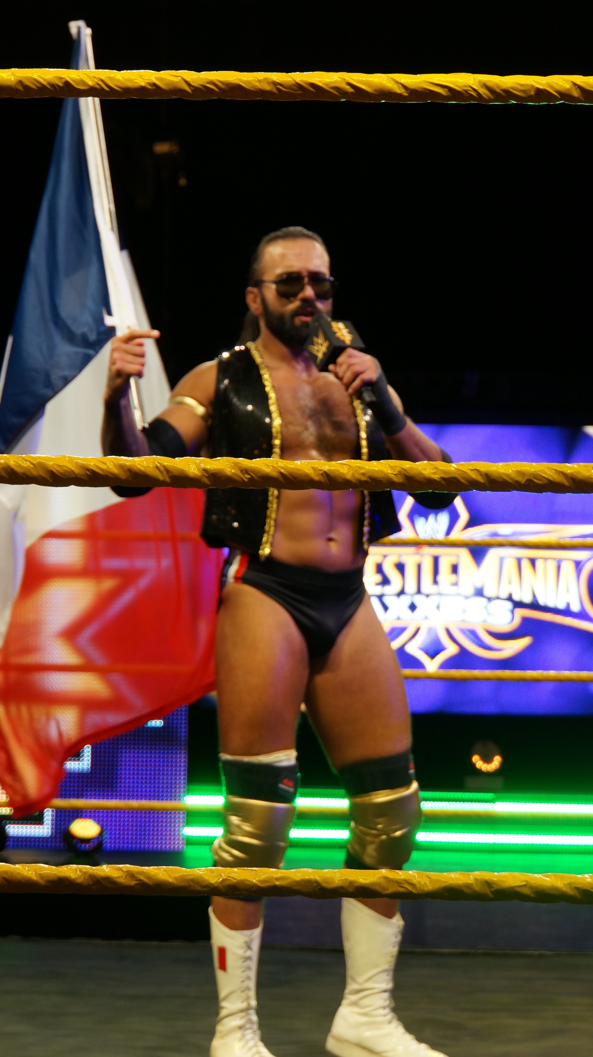 Sylvester Lefort in the ring prior to a match at WrestleMania Axxess in April 2014. Cropped from original.